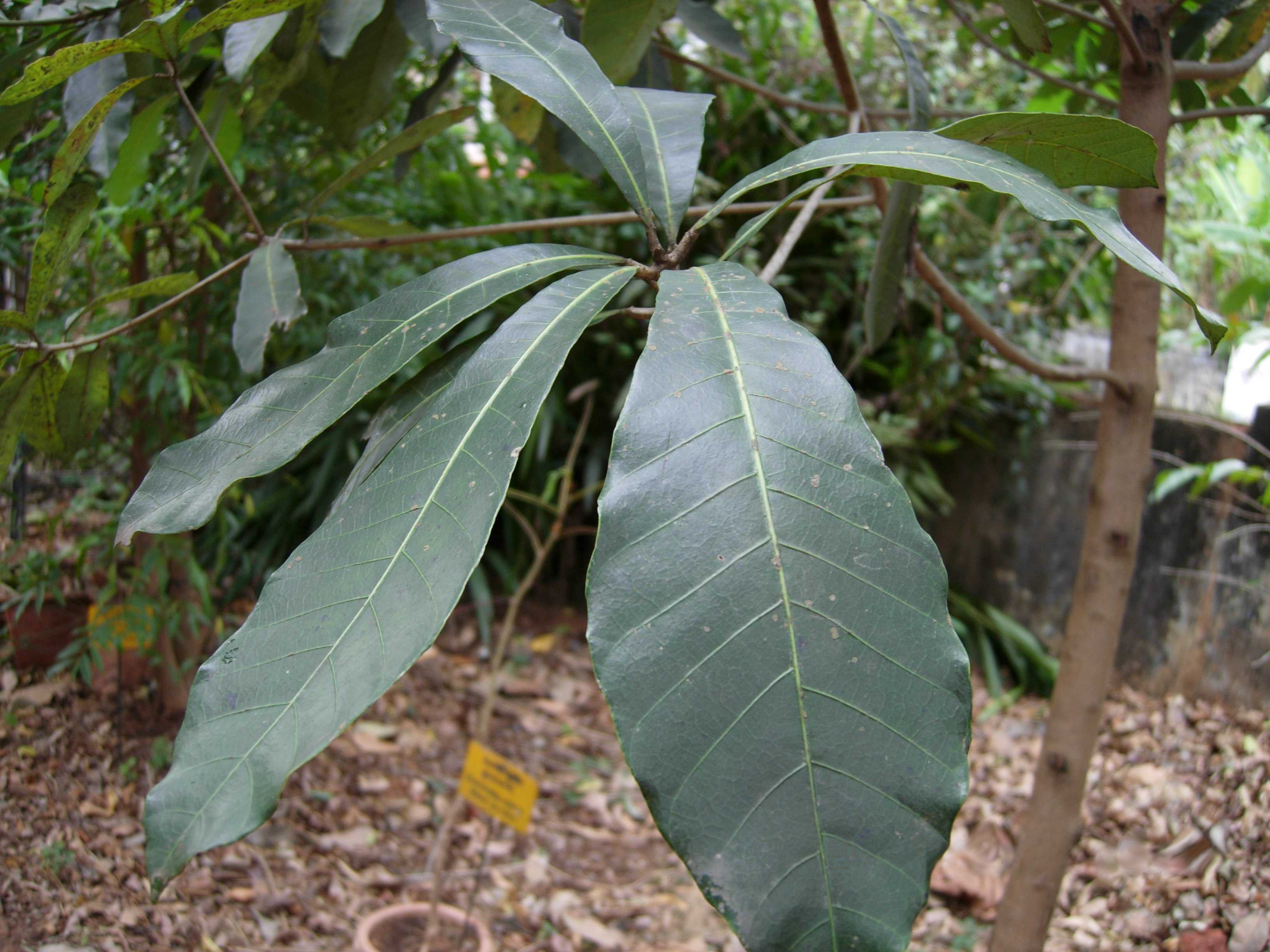 Semecarpus anacardium-small plant